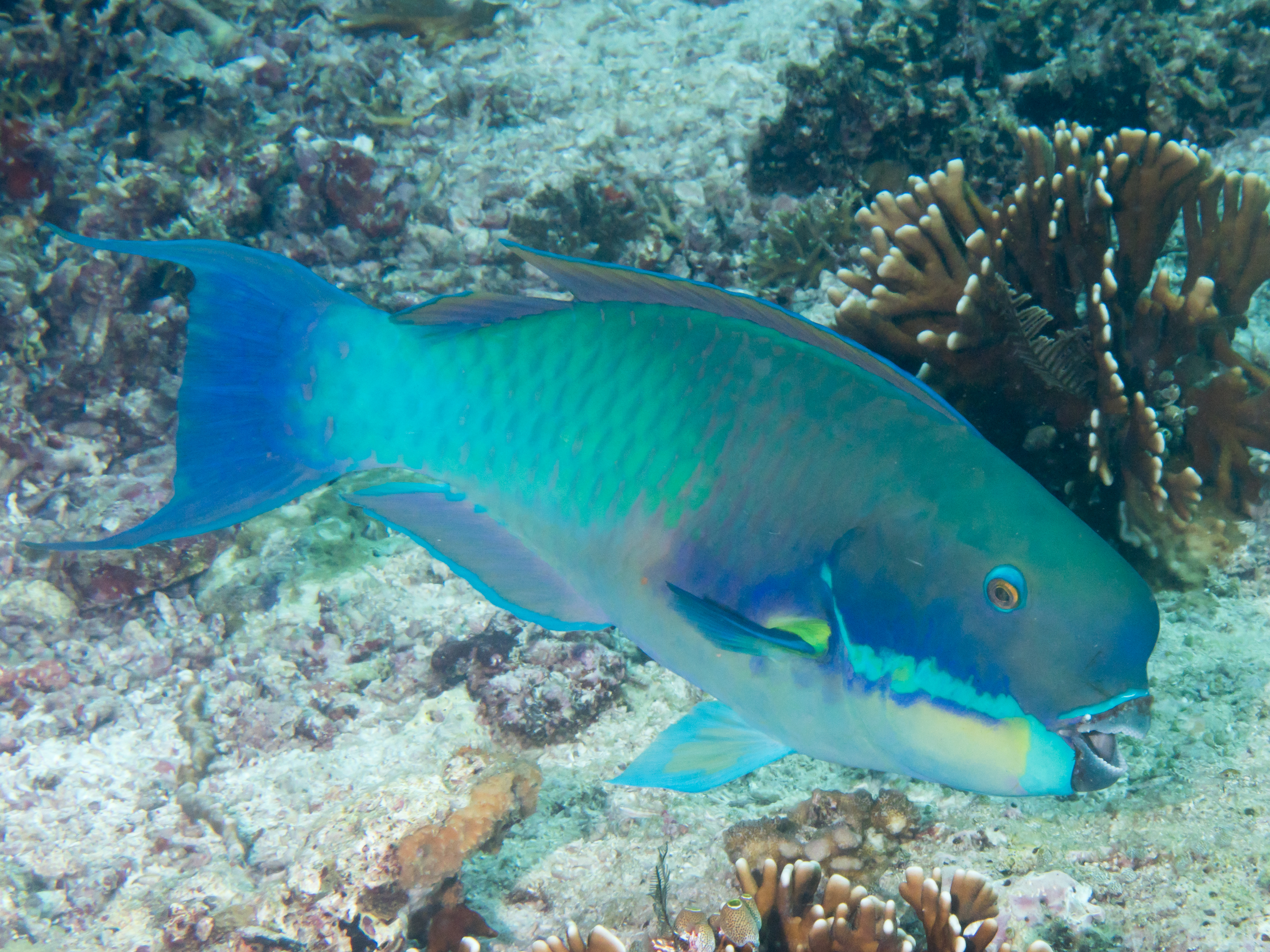 Steephead parrotfish (Chlorurus microrhinos). Raja Ampat